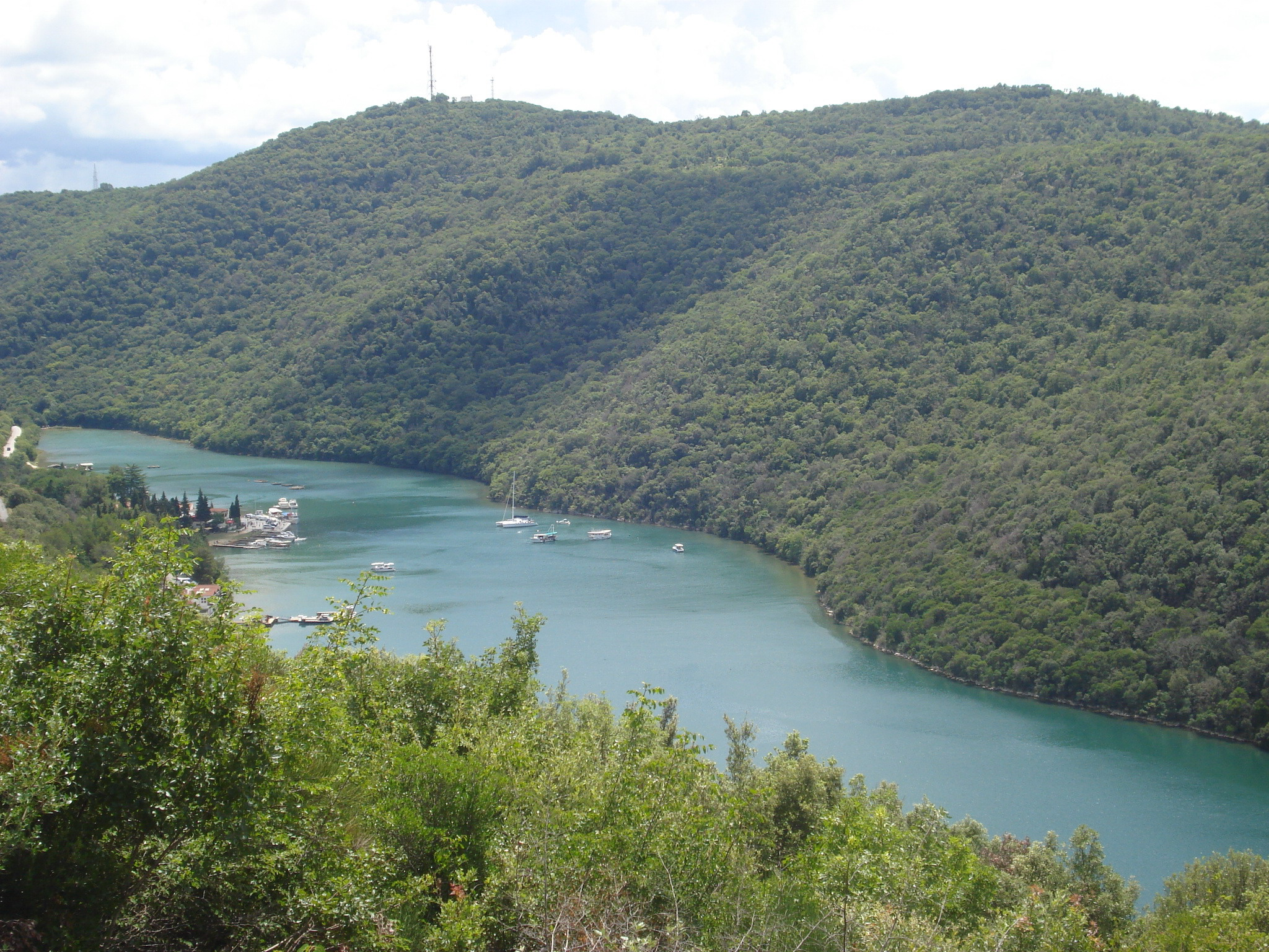 Lim bay (Limski kanal), Istria County, Croatia - northwest viewHrvatski: Limski kanal, Istarska županija, Hrvatska - pogled sa sjeverozapadne strane